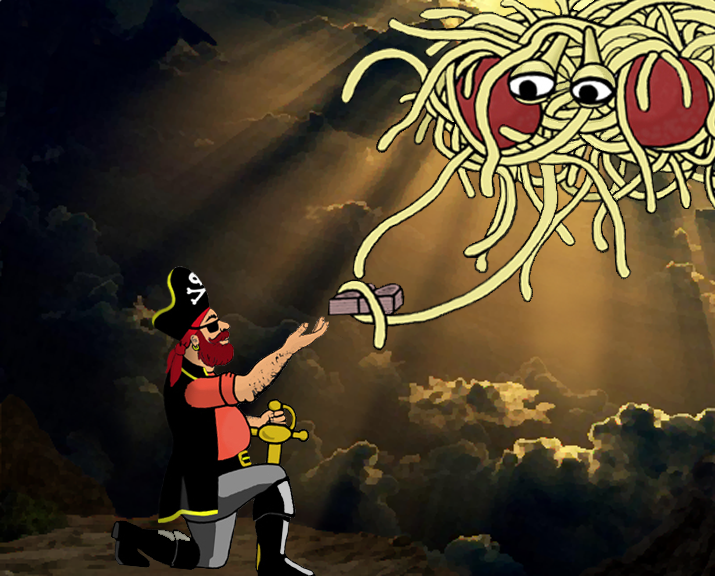 Depiction of the Flying Spaghetti Monster giving the "I'd Really Rather You Didn'ts" tablets to Captain Mosey.